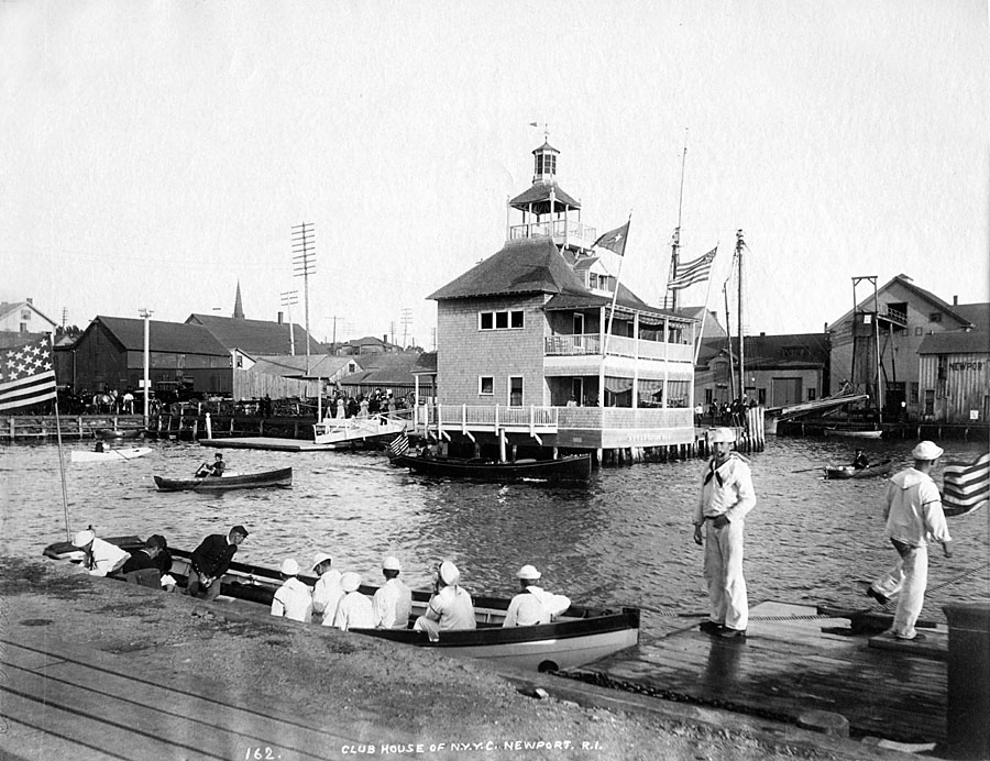 Station No. 6. Club House of New York Yacht Club, Newport, RI, as it appeared in the 1890s.